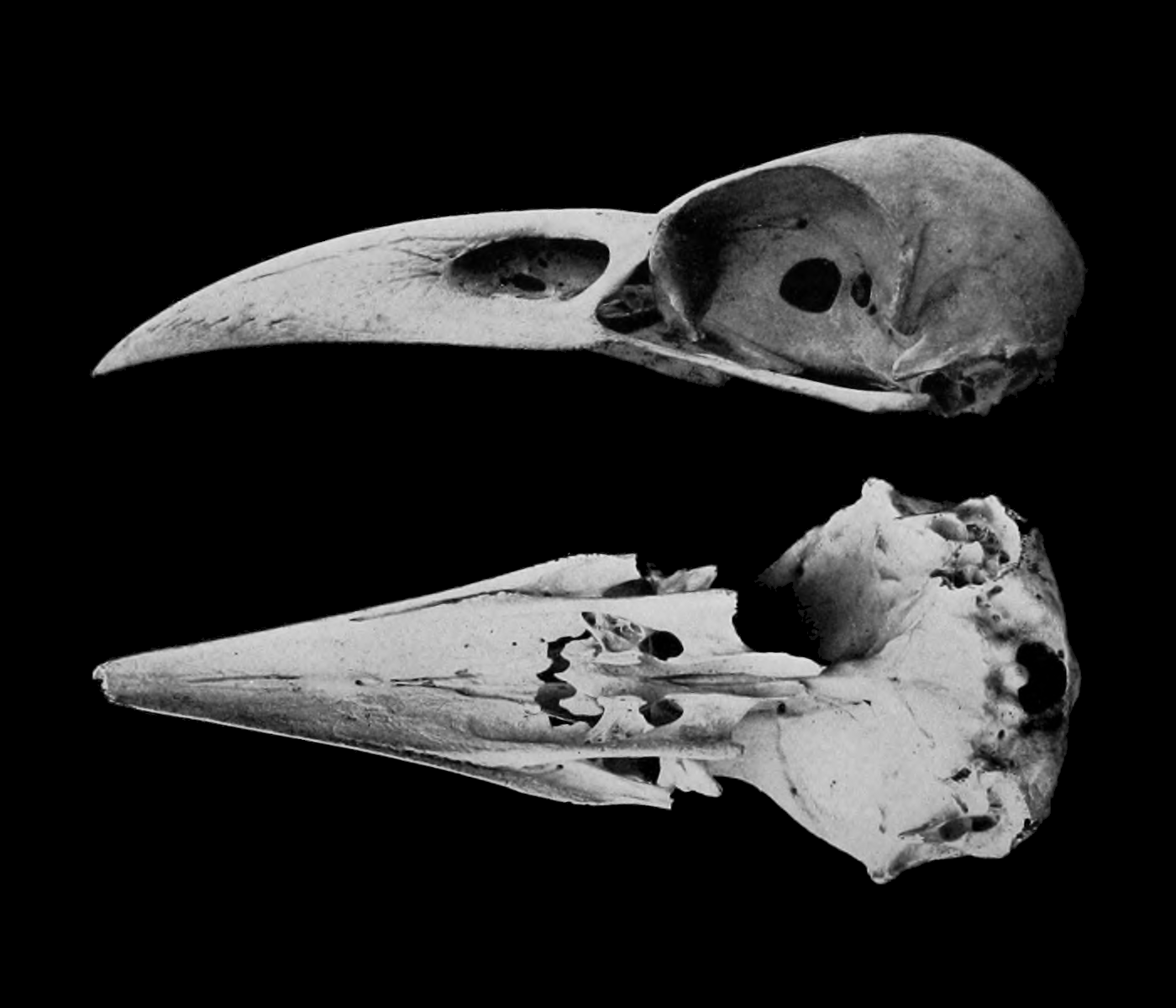 Chatham Islands Raven, skulls from left lateral (above) and ventral (below)